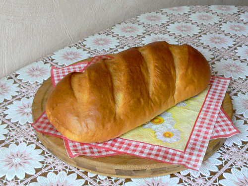 Bread from Volgograd ("Baton")